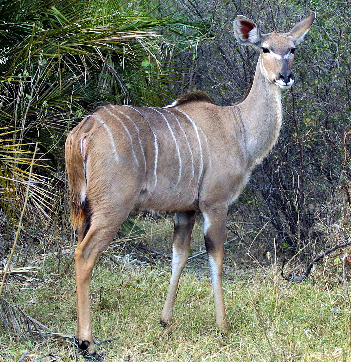 Kudu cow, Okavango, Botswana, taken & submitted by Paul Maritz (paulmaz)